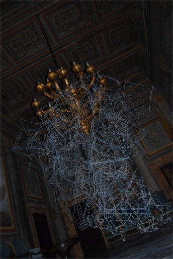 Wire-construction in the "Sala Maggiore del Palazzo Priori, Viterbo, Italy 2009